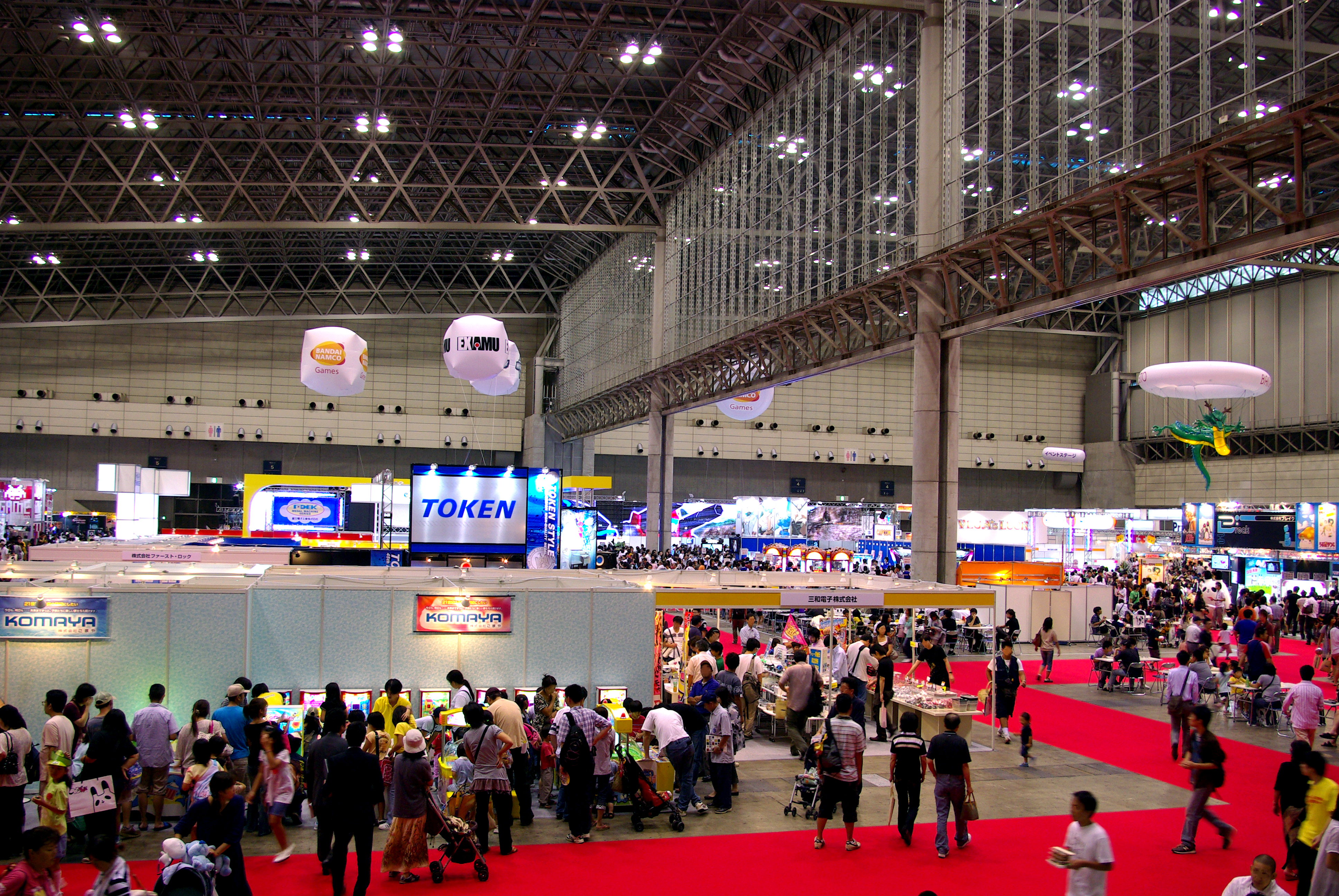 46th Amusement Machine Show, photograph in hall.